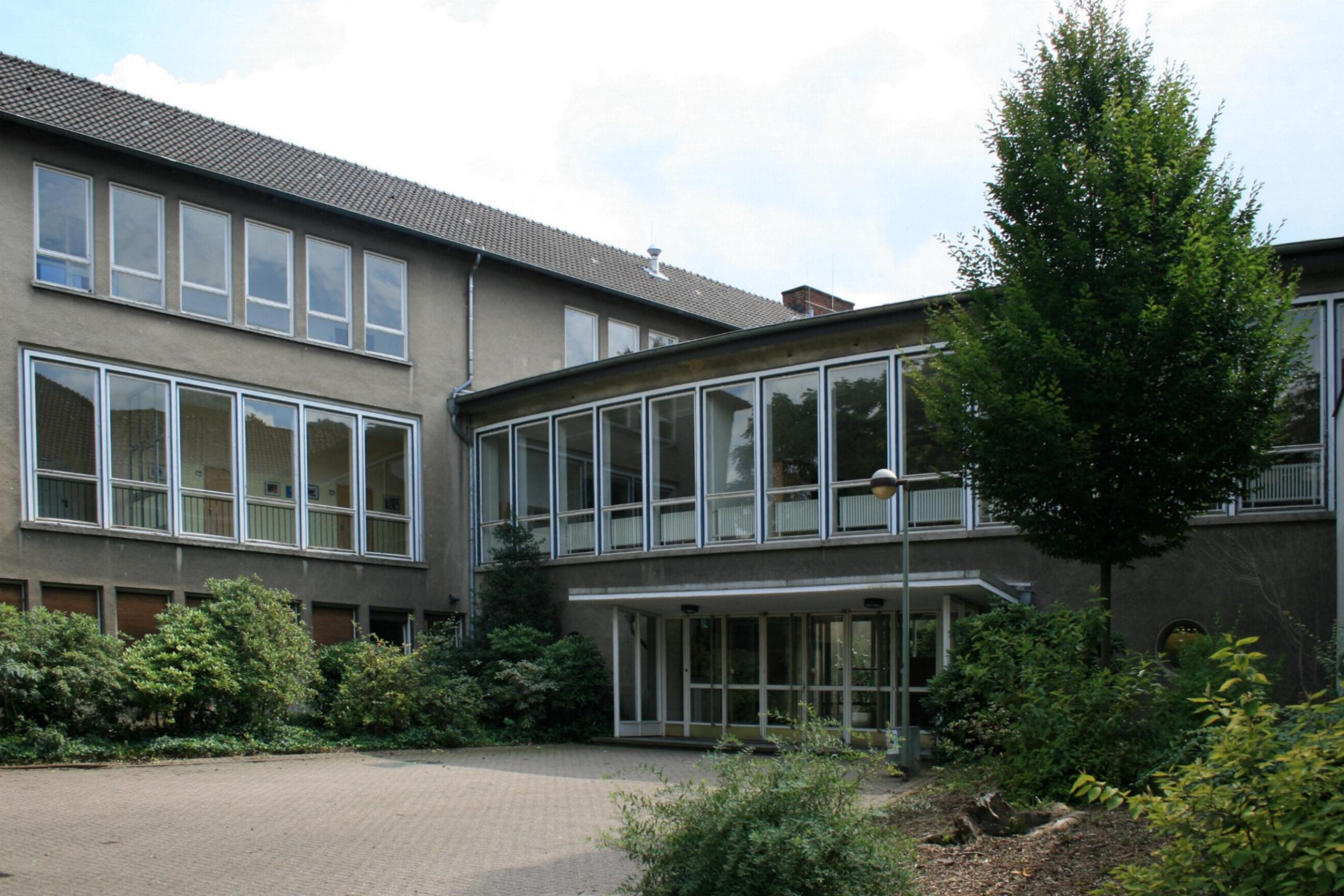 Cultural heritage monument No. B 167 in Mönchengladbach